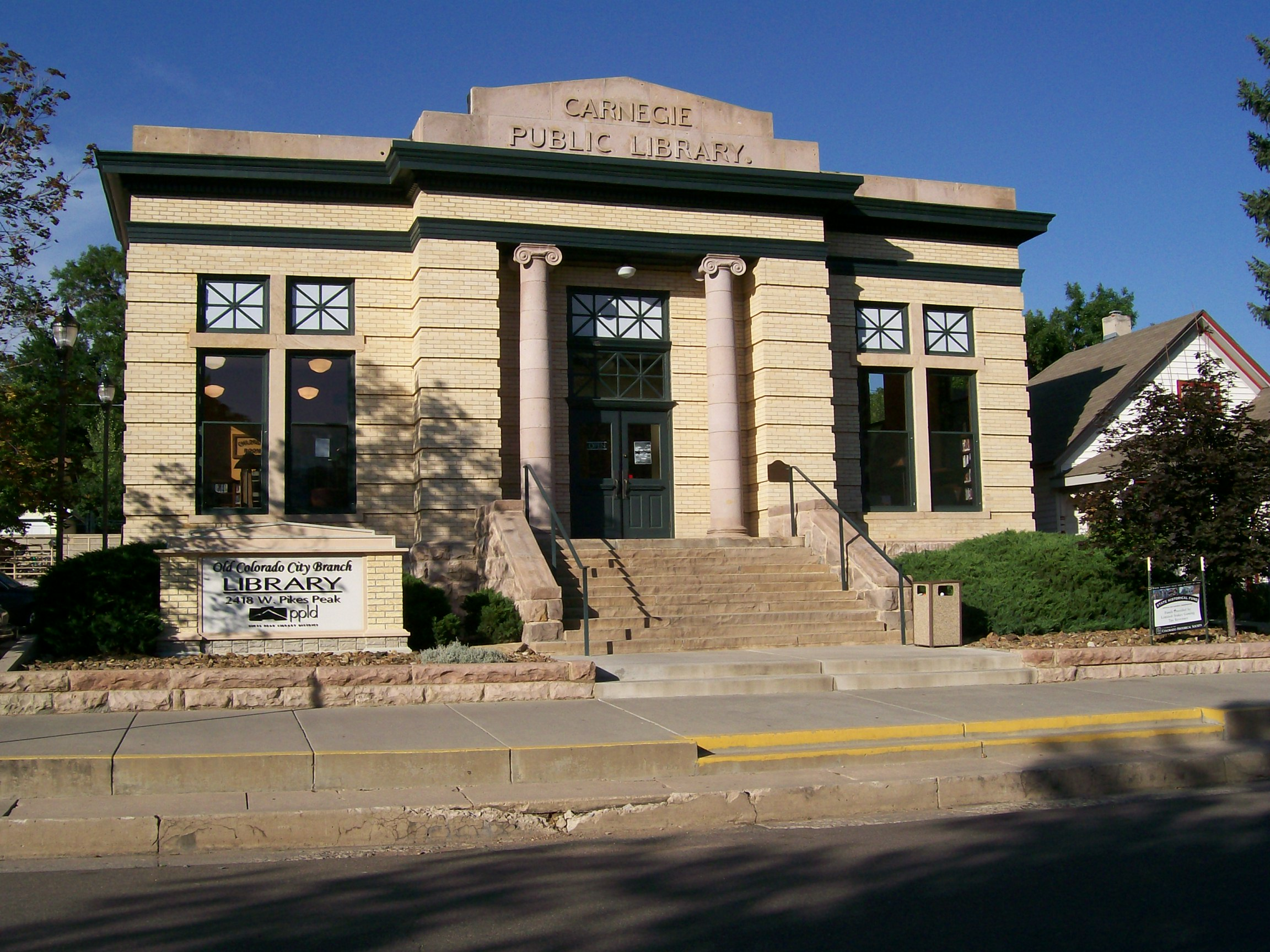 Carnegie Library in Old Colorado City, Colorado, United States, a branch of Pikes Peak Library District